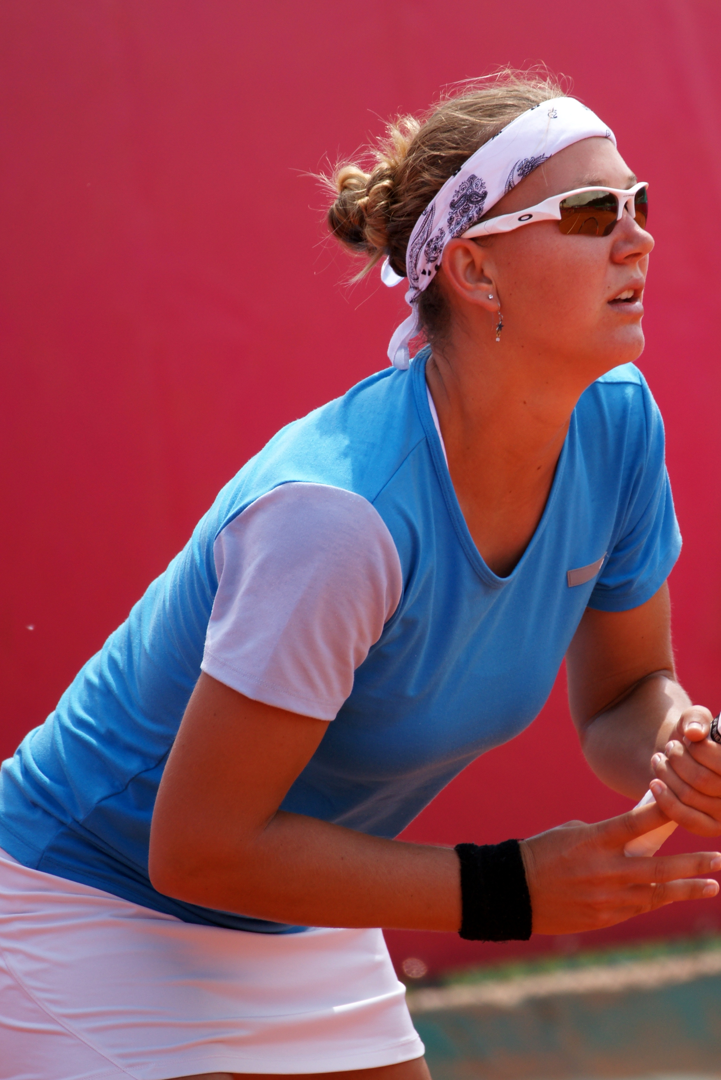 Nicole Melichar, Open ITF Cagnes 2015